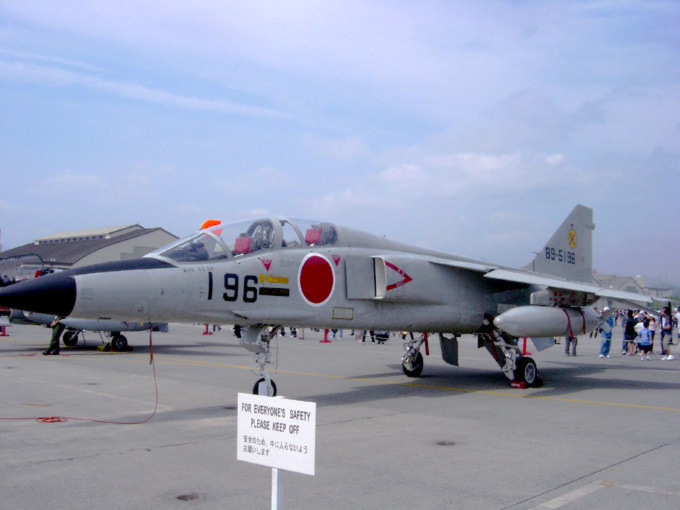 T-2 Training aircraft(T-2 (練習機))),The U.S. military Iwakuni base